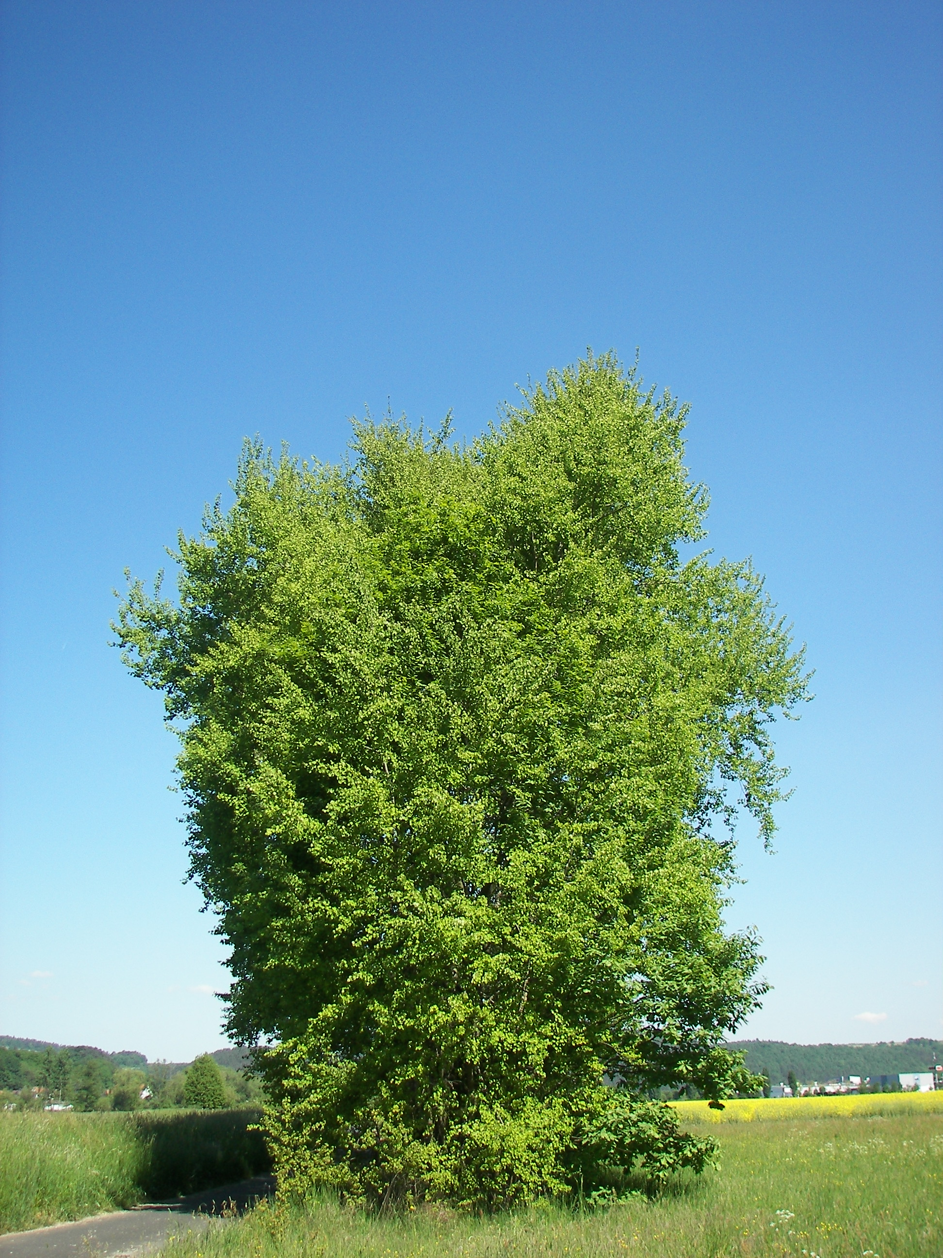 Aspen (Populus tremula) near Marburg, Hesse, Germany